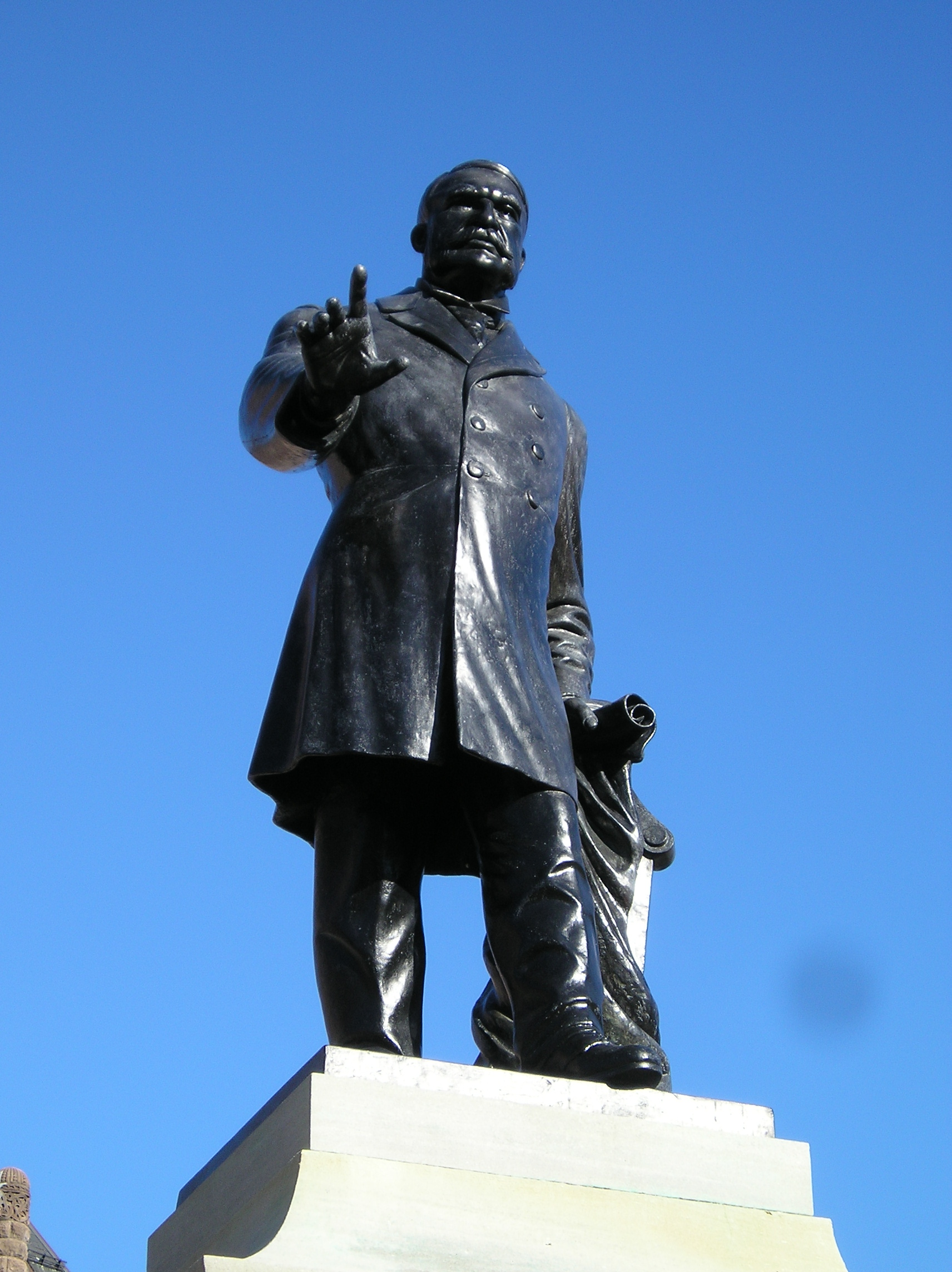 Statue of Sir James Whitney on the grounds of Queen's Park, Toronto. Picture taken January 15, 2006.